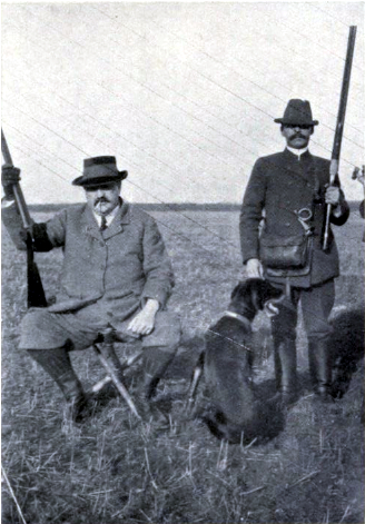 Baron Lipthay, Anthony Wilding's host at Lovrin, Hungary